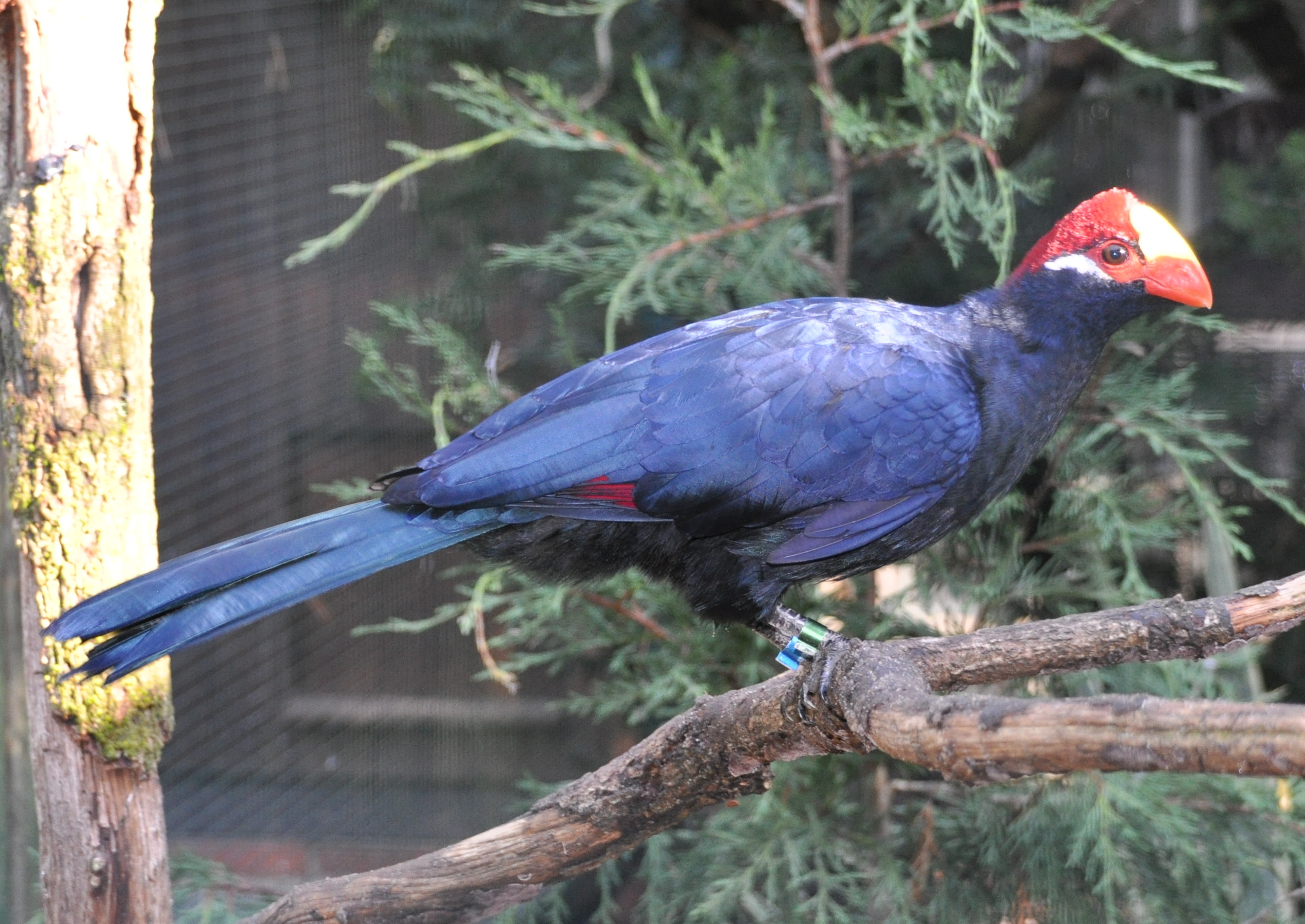 Violet Turaco (Musophaga violacea) in the Walsrode Bird Park, Germany.